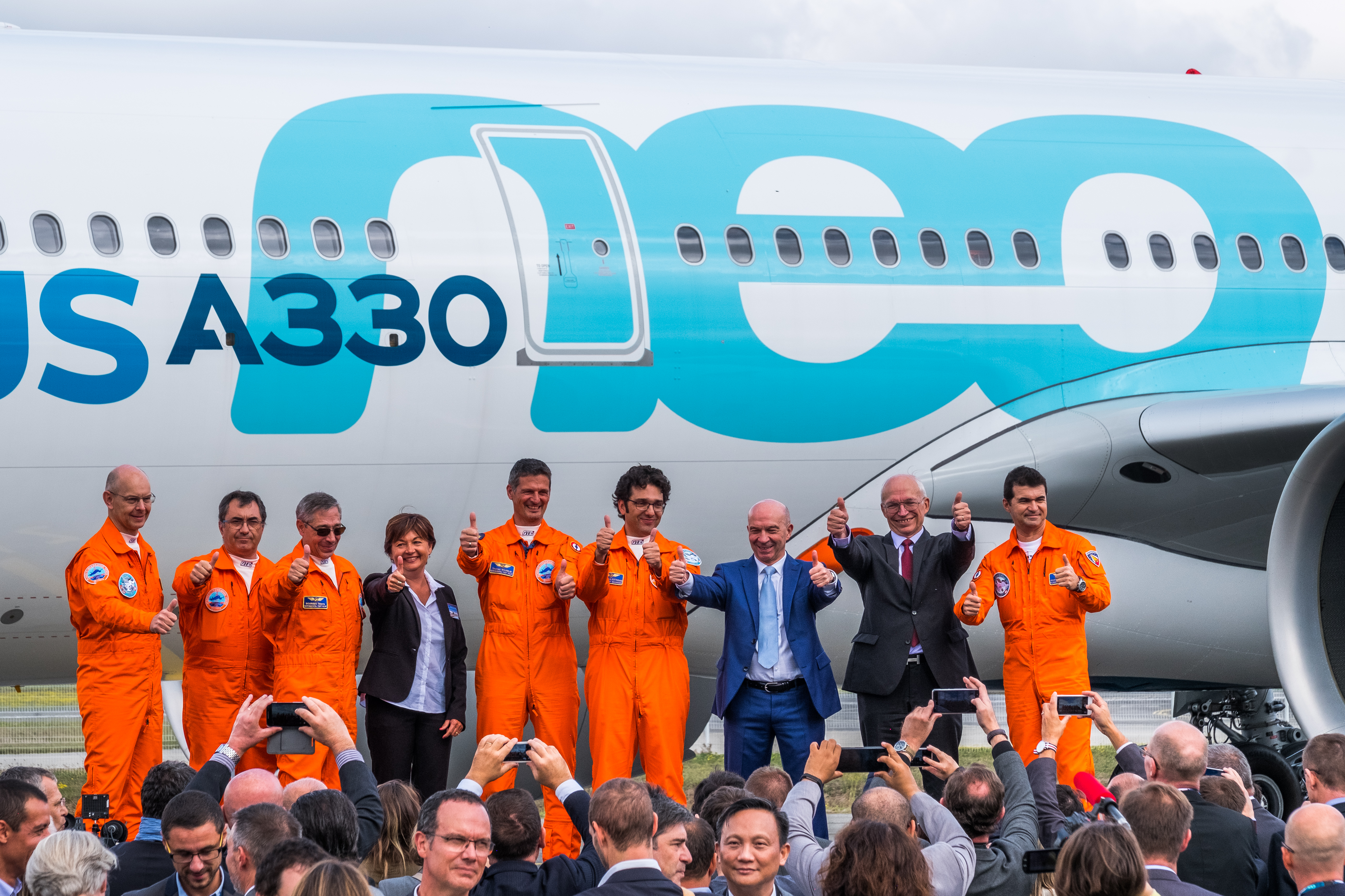 Airbus A330neo First Flight Crew. 19 October 2017, Toulouse, France.